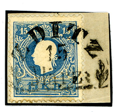 15 kreuzer Issue II Zditz